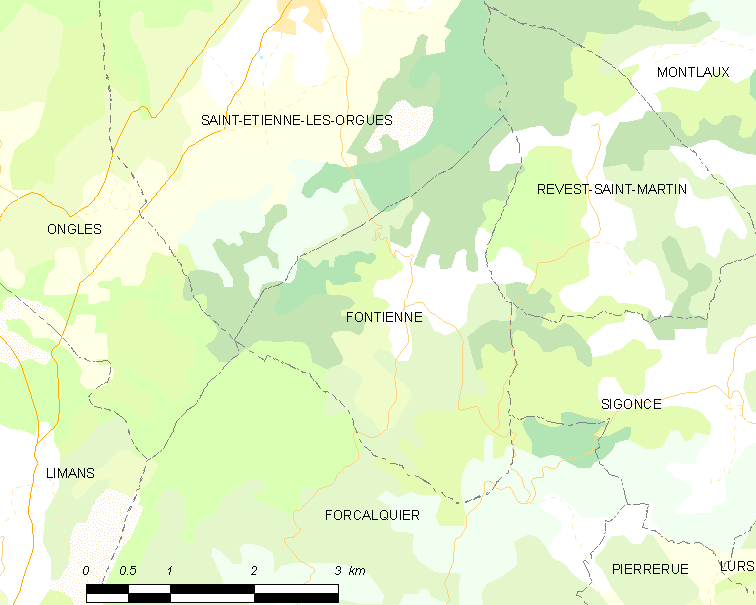 Map commune FR insee code 04087.png Légende